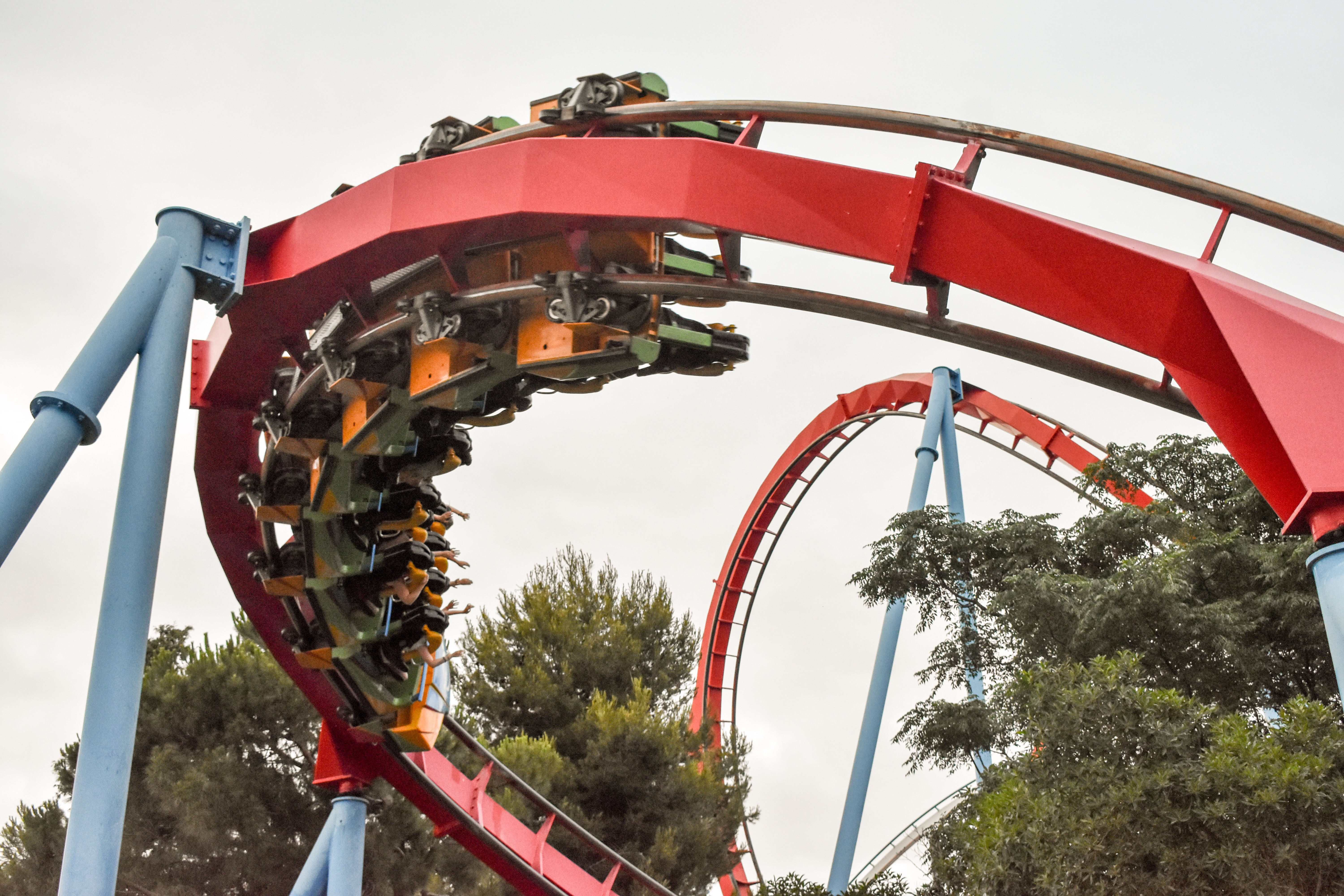 AN IMAGE OF THE BANKED TURN ON THE DRAGON KAHN ROLLER COASTER AT PORTAVENTURA WORLD